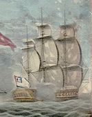 A Representation of His Majesty's Frigate La Concorde Engageing Two French Frigates The L' Engageante and La Resolve on the 23d April 1794 off the Isle of Bas